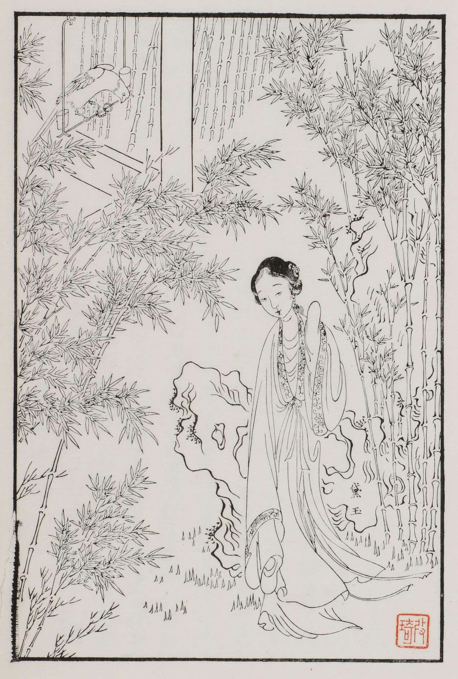 Lin Daiyu